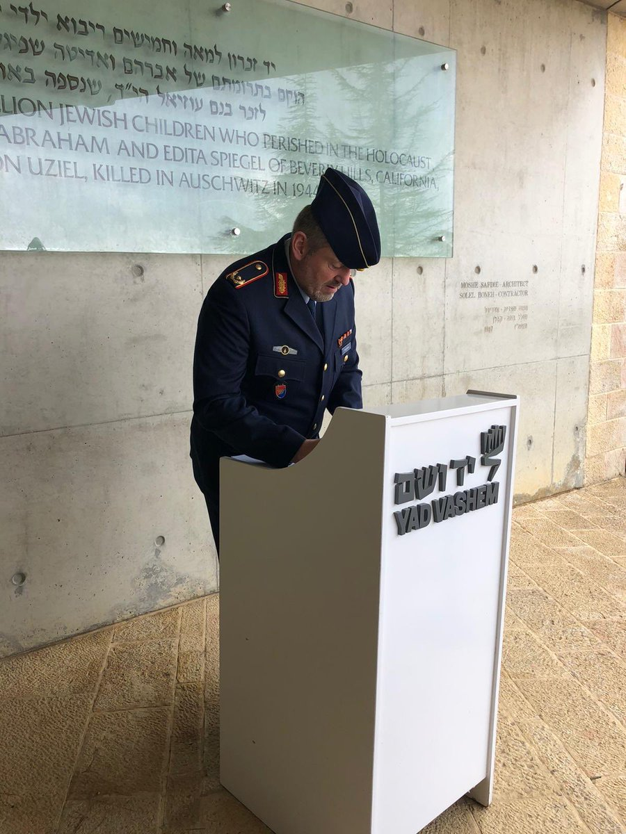 The Head of the German Ground Based units Brig. Gen Michael Hogrebe visited Israel this past week as a guest of The IADF CDR, Brig. Gen. Ran Kochav. The German Air Force have a professional and fruitful cooperation with the Israeli Air Force. During his visit to the IADF he participated in a professional panel and was briefed about the challenges facing the IADF. The general visited the 136 Arrow battalion , 66 battalion - National Early Warning Center and 947 Iron Dome battalion. BG Hogrebe and BG Kochav discussed the cooperation between the forces and have agreed on the activities and way ahead for the next years. This week we also commemorated the international holocaust day and 75th anniversary for the liberation of Auschwitz-Birkenau consternation camp.